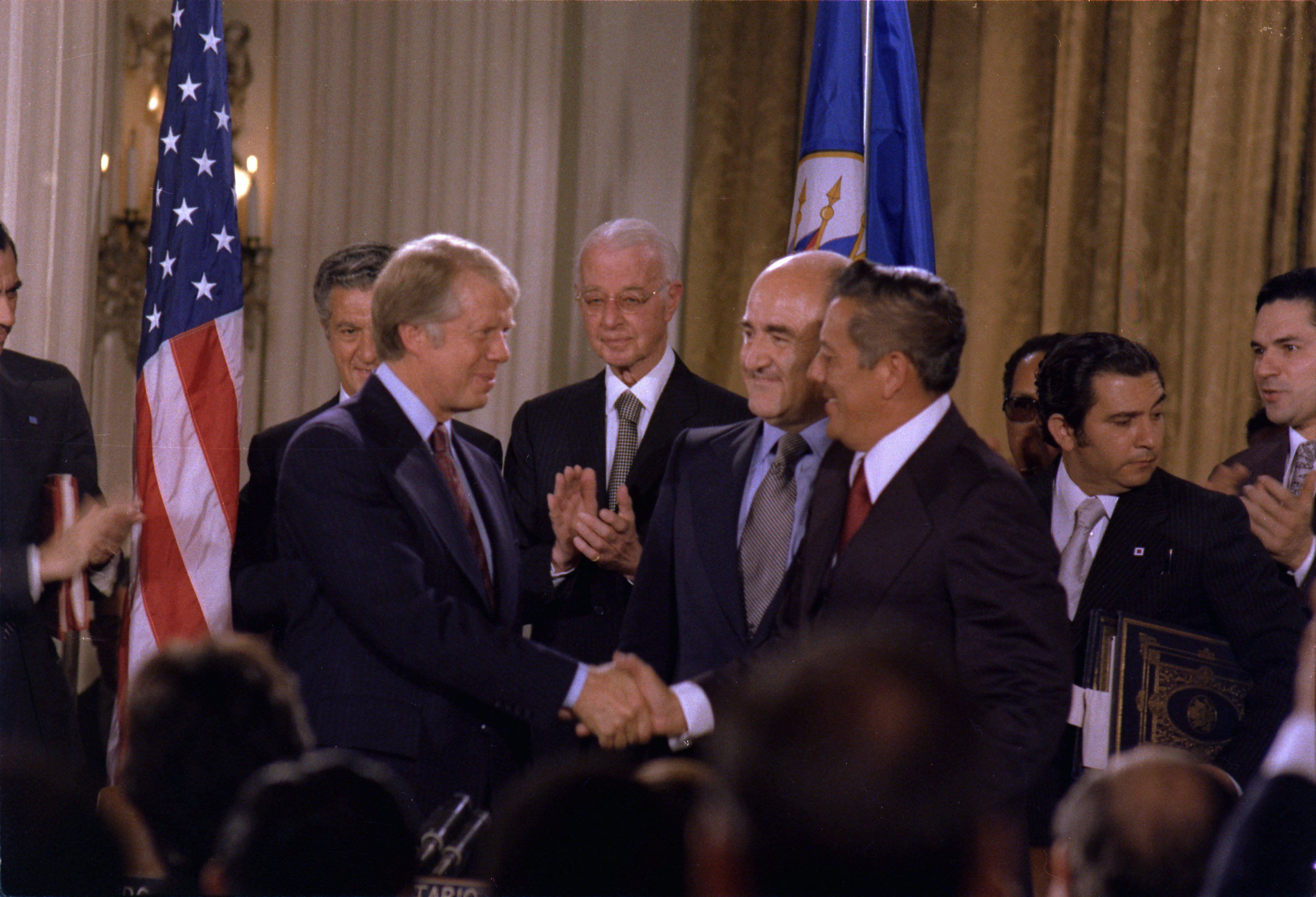 Jimmy Carter and General Omar Torrijos shake hands after signing the Panama Canal Treaty., 09/07/1977. Also in this picture Alejandro Orfila (right to Jimmy Carter).